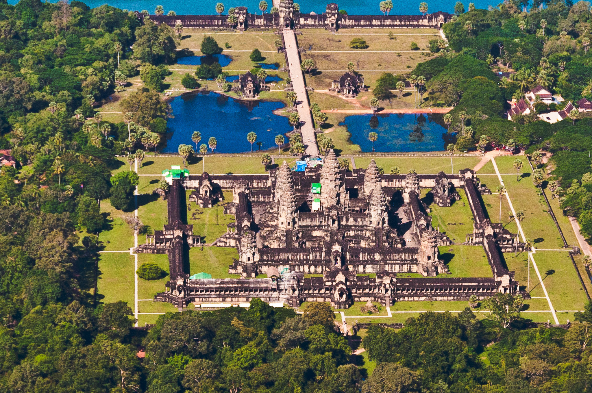 Angkor Wat is a temple complex at Angkor, Cambodia, built for the king Suryavarman II in the early 12th century as his state temple and capital city. As the best-preserved temple at the site, it is the only one to have remained a significant religious centre since its foundation – first Hindu, dedicated to the god Vishnu, then Buddhist. It is the world's largest religious building. The temple is at the top of the high classical style of Khmer architecture. It has become a symbol of Cambodia, appearing on its national flag, and it is the country's prime attraction for visitors.